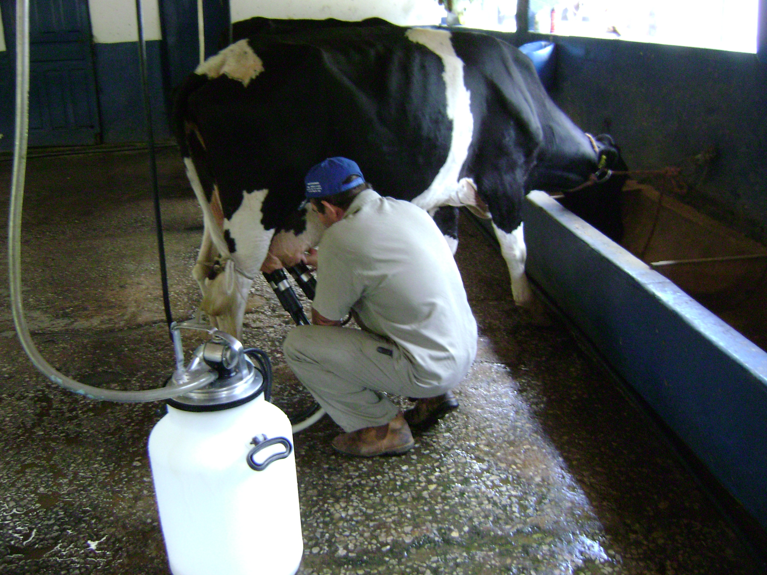 Mechanical milking in Minas Gerais, Brazil.